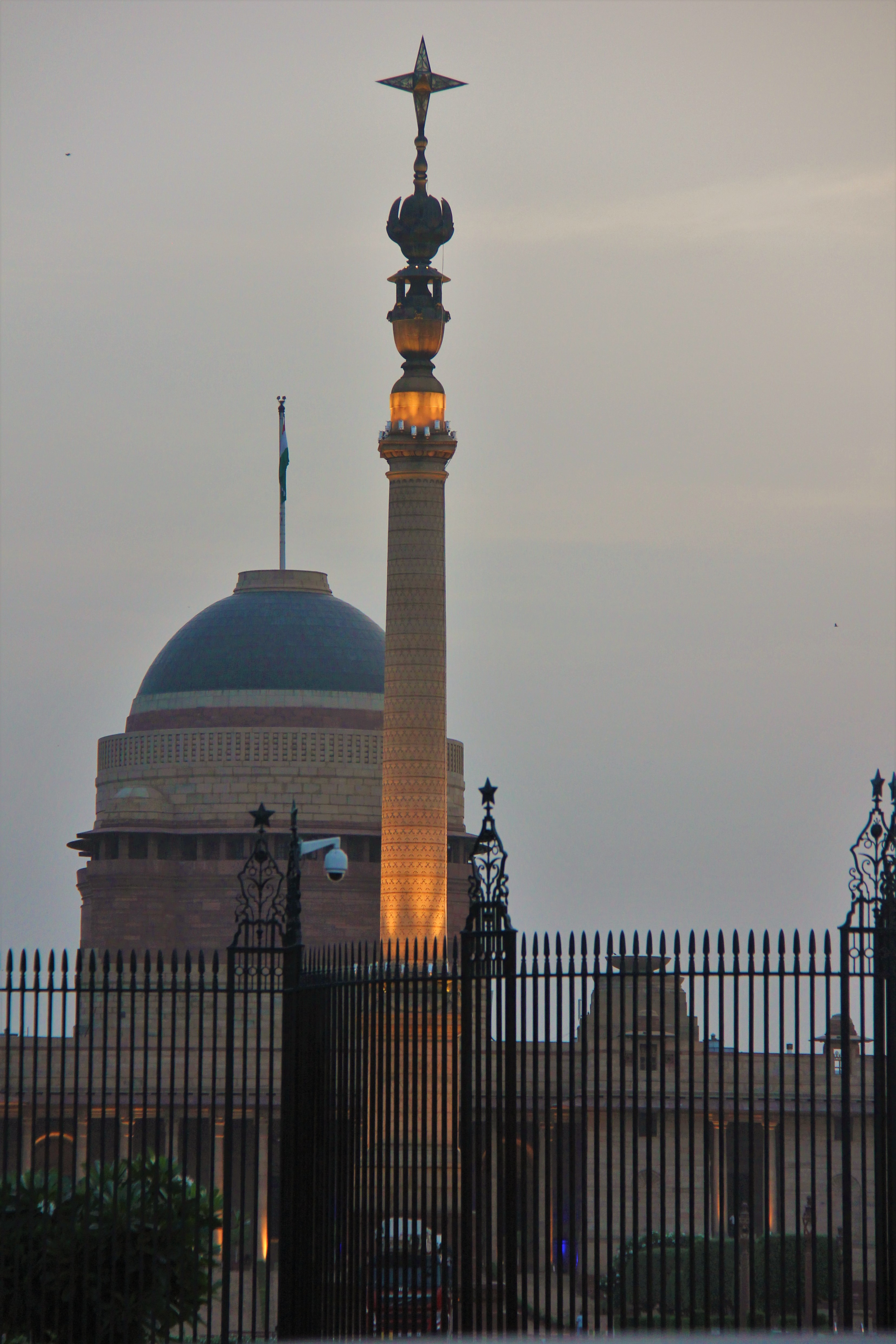 Jaipur Column at Rashtrapati Bhavan in Delhi.